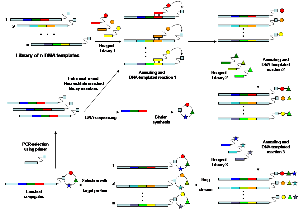 DNA sequence-programmed chemical reactions